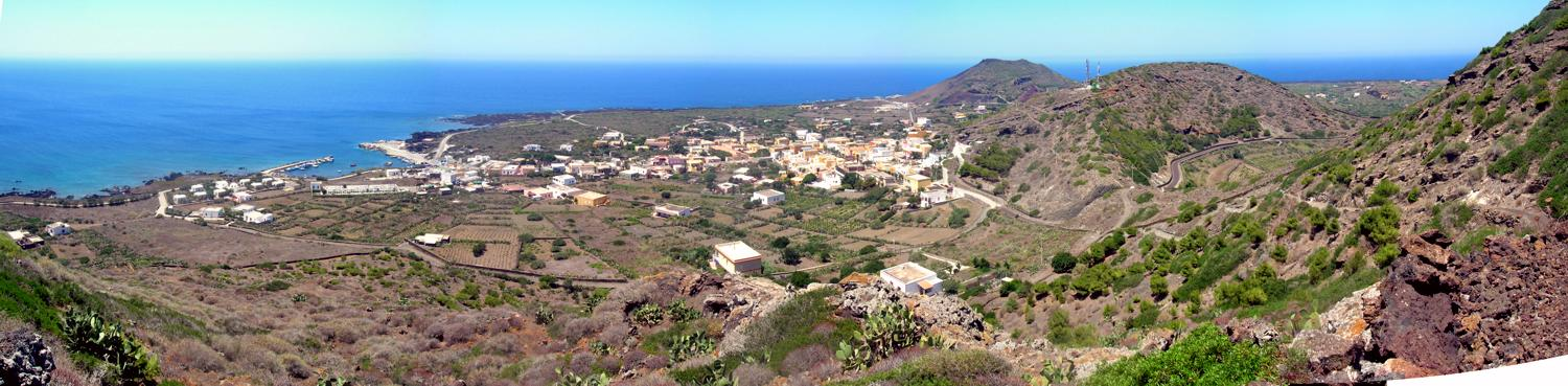 View from the western side of Monte Vulcano, the highest of three major volcanic cones on the island of Linosa, toward the village of Linosa. The cone of Monte Nero - a youthful feature with a well-preserved summit crater - is in the distance, while the rounded hill located somewhat closer to the observer is the rim of the Fossa Capellano explosion (phreatomagmatic) crater. Photomosaic taken 28 July 2007.